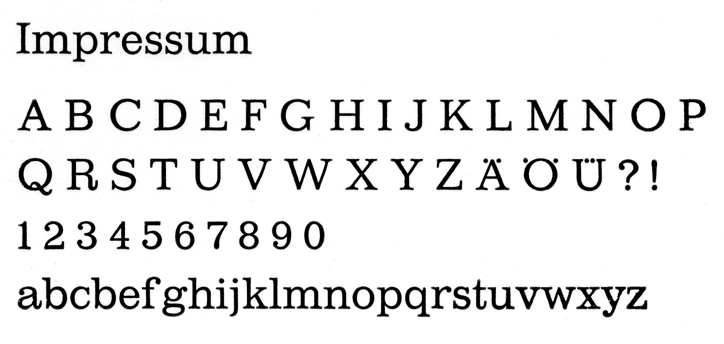 Letterpress print of Impressum regular. Font designer: Dr. Konrad Friedrich Bauer and Walter Baum. Foundry: Bauersche, Frankfurt/Main First release date: 1963